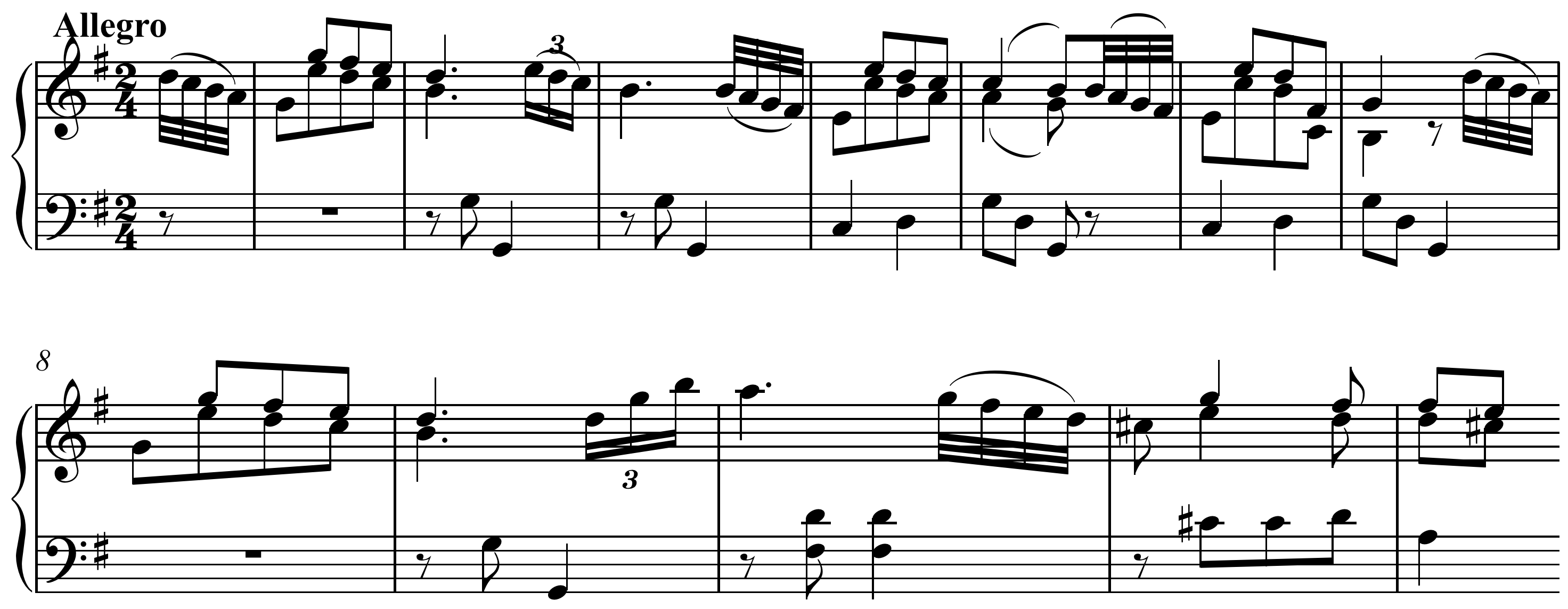 First theme of Haydn's Sonata in G Major, Hob. XVI: G1, I, mm. 1–12. Created by Hyacinth (talk) 09:08, 17 December 2010 using Sibelius 5.